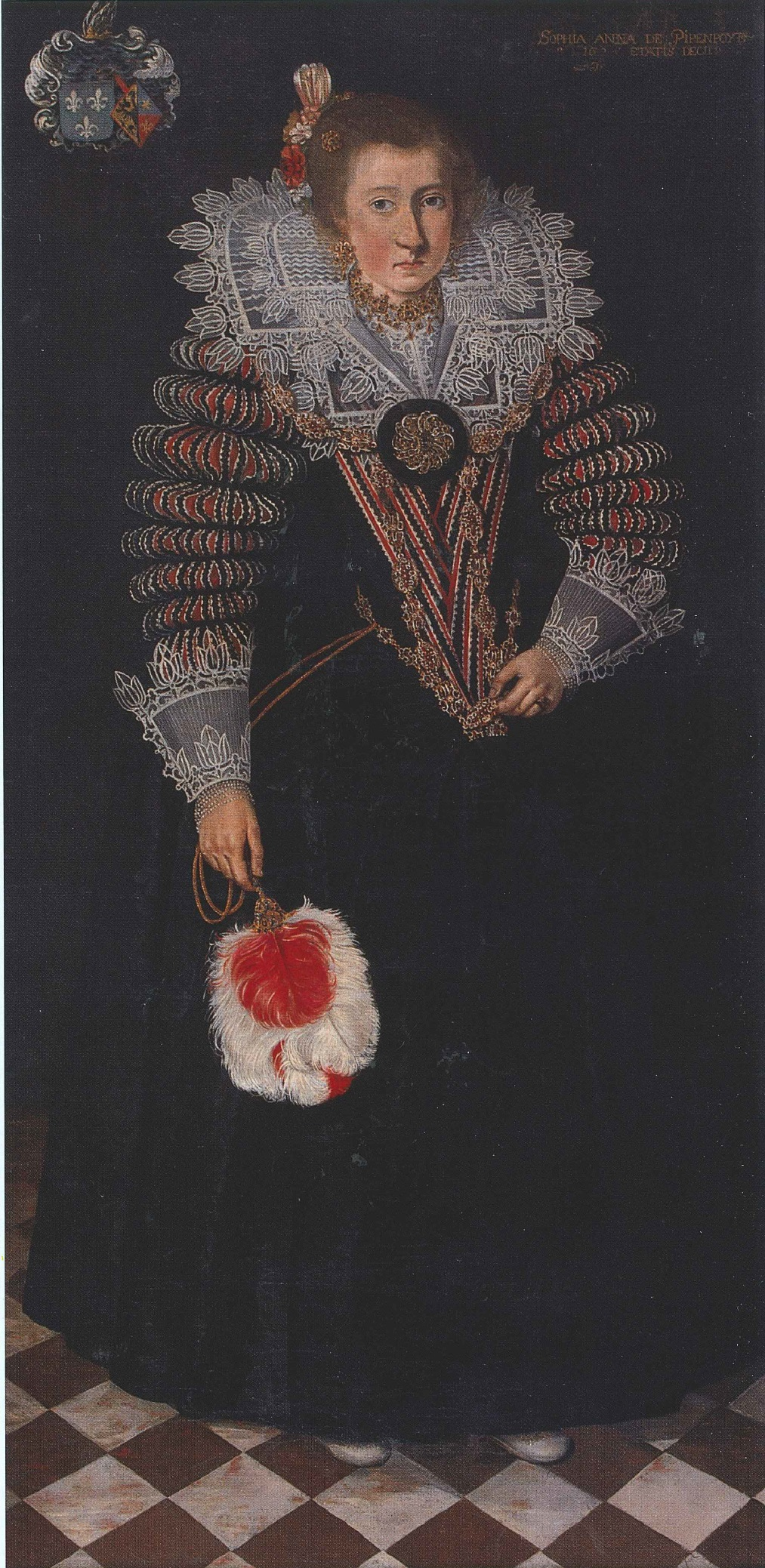 This image is available from the Netherlands Institute for Art Historyunder digital ID 174974. This tag does not indicate the copyright status of the attached work. A normal copyright tag is still required. See Commons:Licensing.